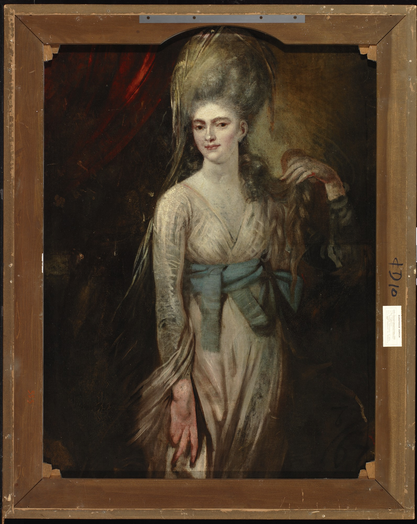 An unfinished painting on canvas, depicting a woman.